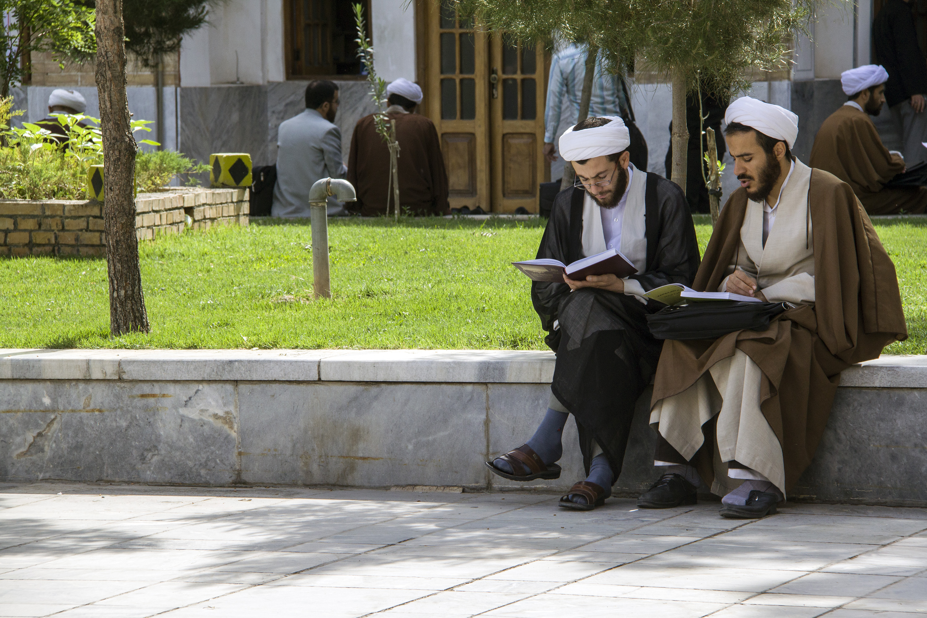 Clergy are some of the main and important formal leaders within certain religions.